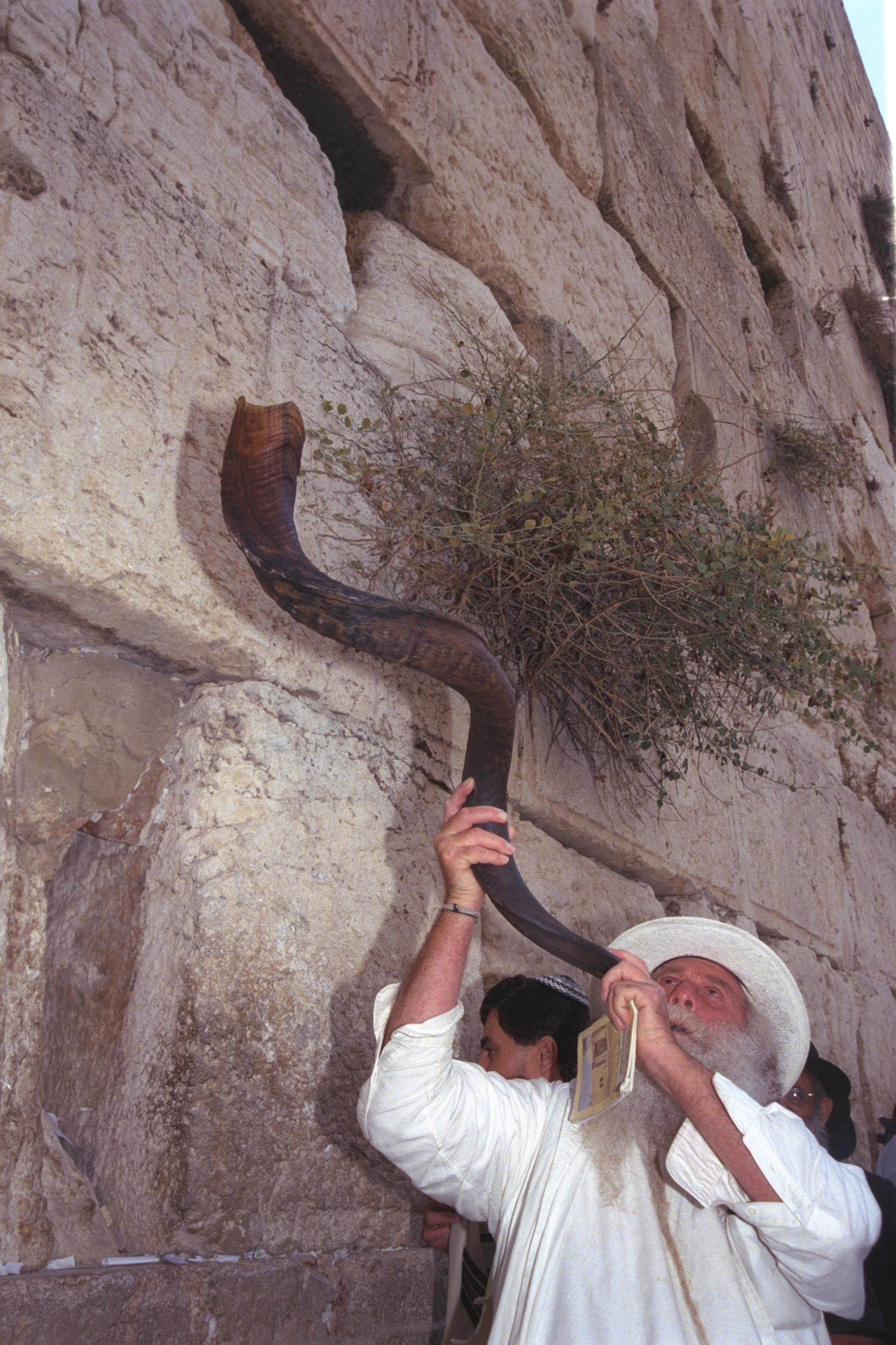 The blowing of the shofar at the Western Wall in Jerusalem during the eve of Rosh Hashanah. Photo by Ohayon Avi, GPO. תקיעת שופר בערב ראש השנה, בכותל המערבי בירושלים.